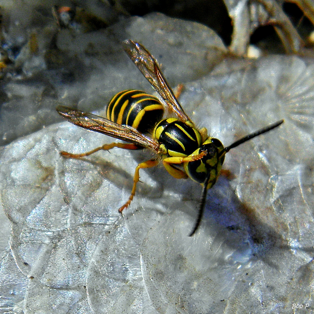 The Southern yellowjacket (Vespula squamosa) is aggressive and quite dangerous when defending it's nest. Stumbling into the nest flyway or making ground vibrations too close to the entrance can get one swarmed! However, away from the nest while foraging for nectar, insects, rotting fruit and carrion, the yellowjacket is relatively amiable as long as you don't grab or insult her. Here is one method to safely photograph yellowjackets using an Osprey and a striped mojarra fish (Diapterus plumieri): 1. Befriend an Osprey ("fish hawk") 2. Ask it to go catch a striped mojarra fish (any fish will do). 3. When it is done eating, it will drop it on the ground. 4. Wait while the fish decomposes. 5. Yellowjackets (& flies) will come. 6. Take photographs! (Or you could just photograph them on rotting fruit but that wouldn't be a challenge :) This Southern yellowjacket has been drawn to a rotting mojarra fish dropped by an Osprey (there were several yellowjackets and blue bottle flies racing around). Note the two distinctive longitudinal stripes on the mesoscutum (just behind the head) which are characteristic of the species. The wasp is standing on the scales of the fish. The ground nest of these yellowjackets is not far away and has been cautiously and nervously passed by yours truly many times over the last couple of years.